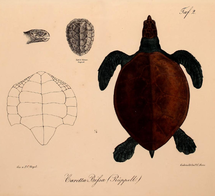 Engraving of hawksbill sea turtle.